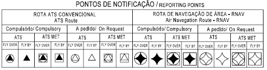 Waypoints classification by DECEA - Brazil